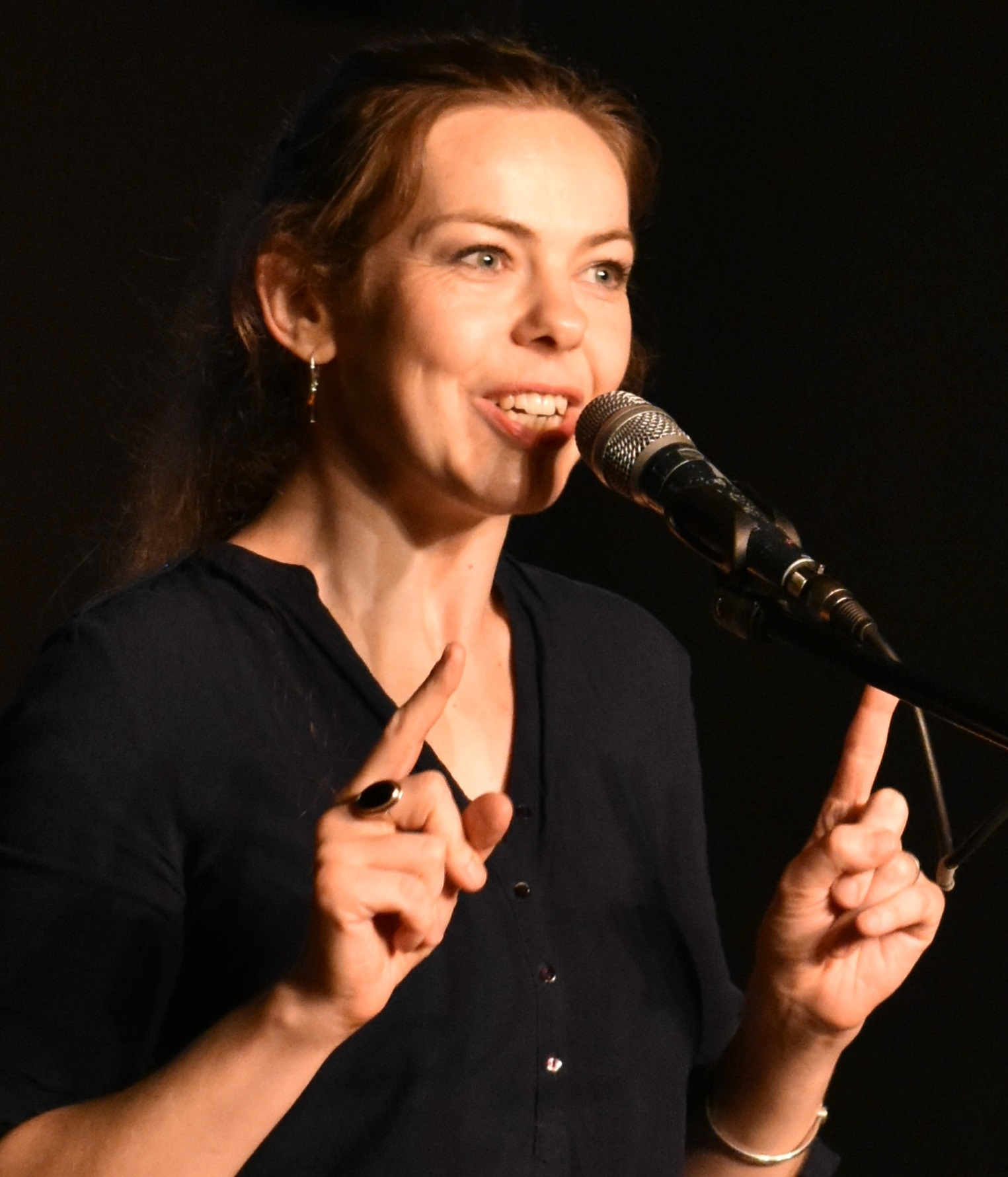 German author Lea Streisand appearing at a reading stage ("Lesebühne") in Berlin.